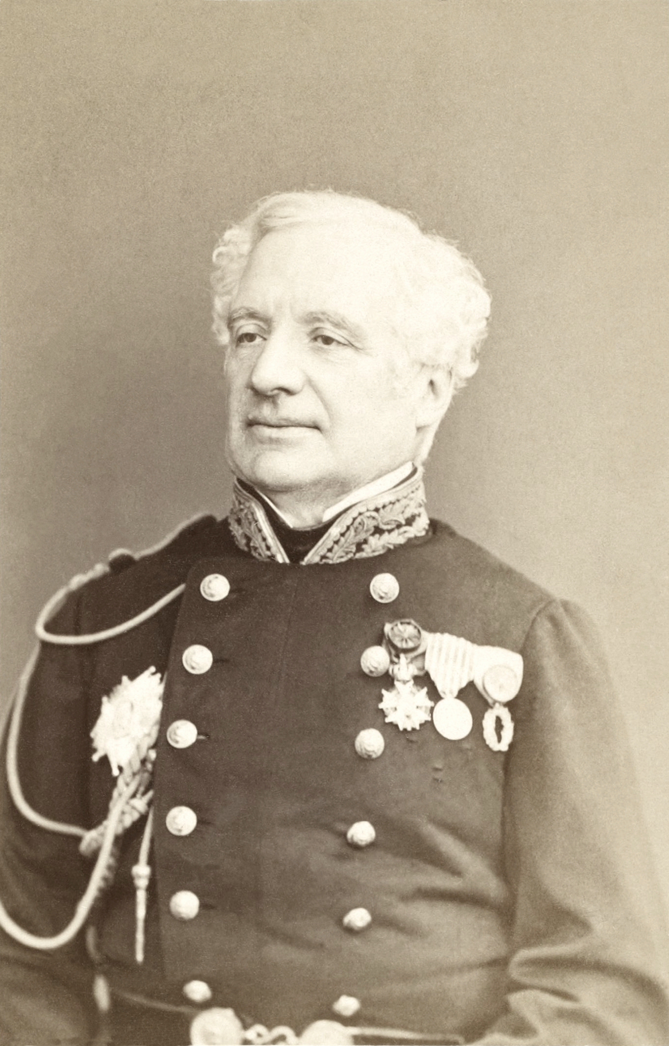 Félix Hippolyte Larrey (1808 - 1895), military doctor, and member of Parliament. Son of Dominique Jean Larrey.